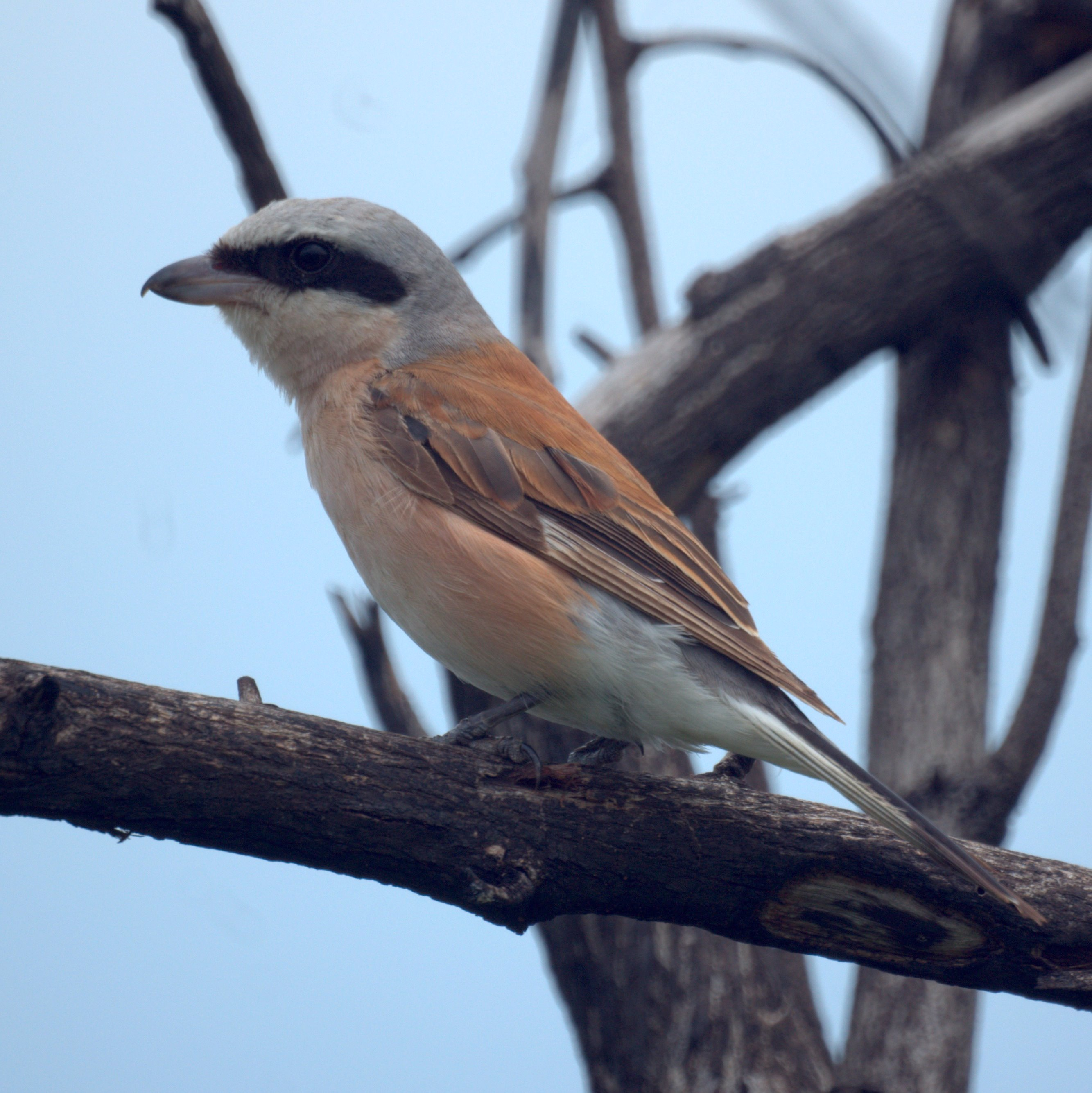 male Red-backed shrike in Limpopo, South Africa